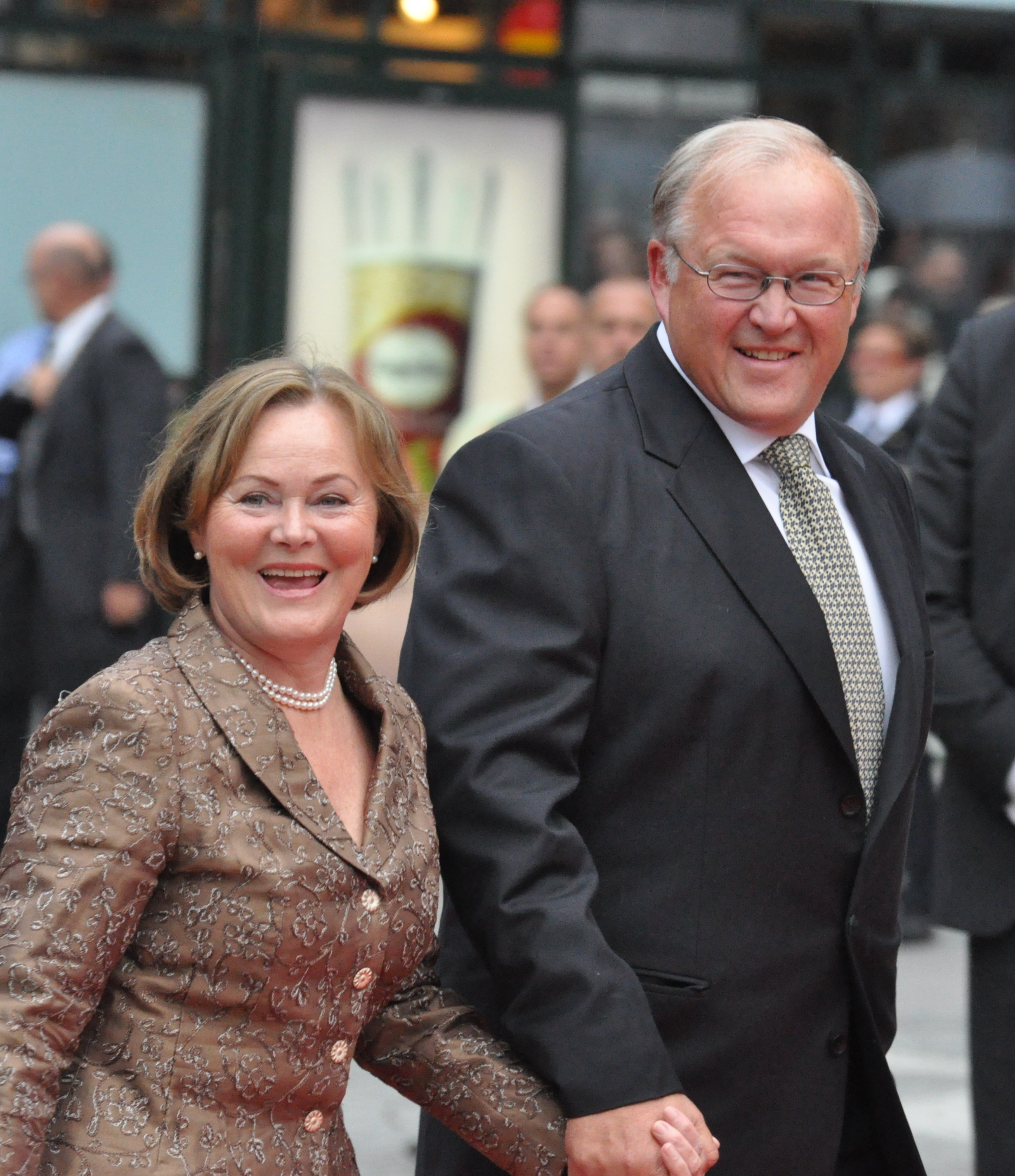 Wedding of Victoria, Crown Princess of Sweden, and Daniel Westling; Arrival of members for the Gouvernment and Swedish and foreign guests of hounour to the Riksdag's Gala Performance at Konserthuset